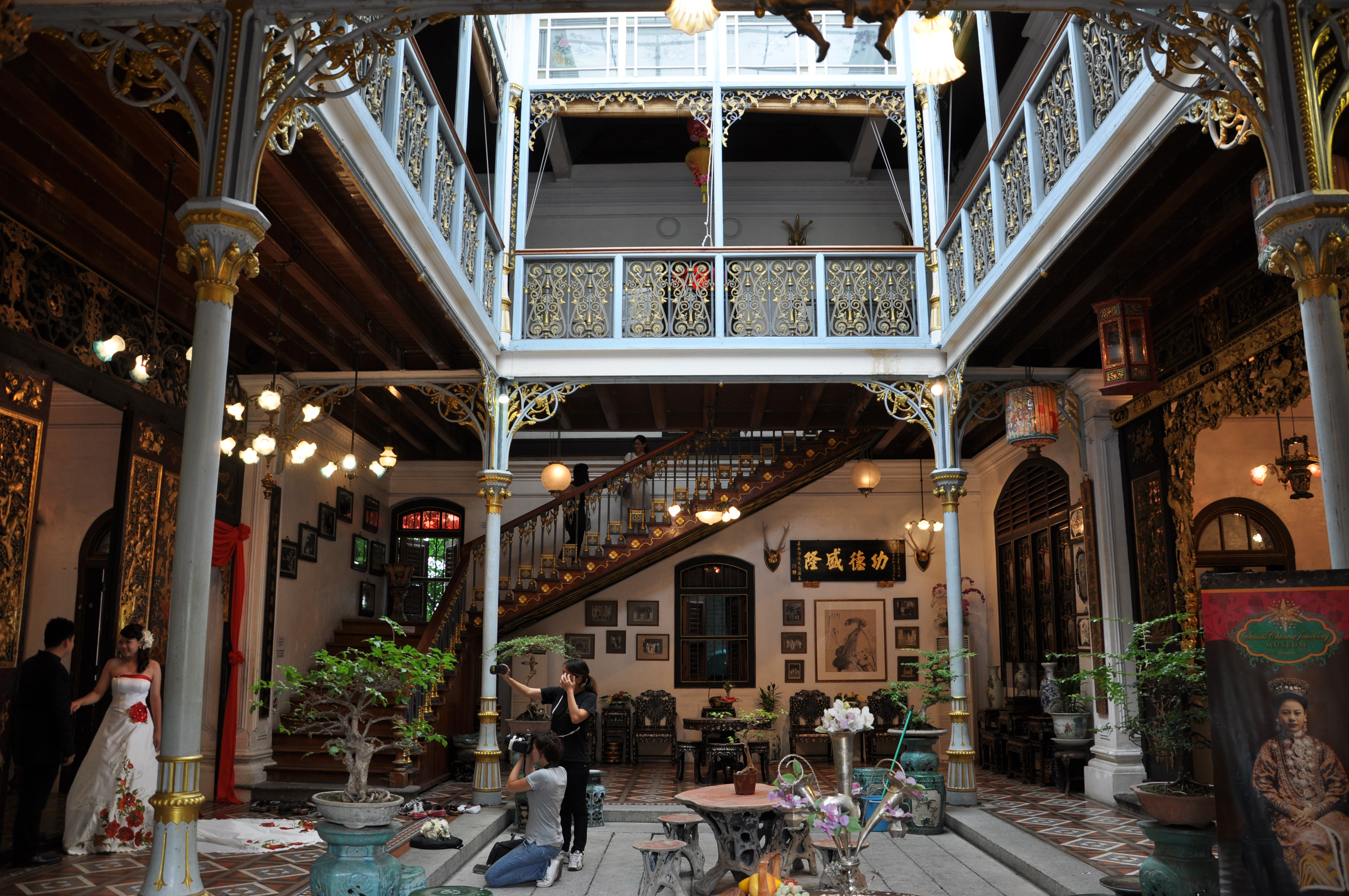 As I come downstairs again on my way out, I paused briefly to look back and photograph the central courtyard before I leave. It was then that I noticed that a wedding couple had come in and were getting their photographs taken. Apart from the house itself, there is an attached jewellery museum (Straits Chinese Jewellery Museum) and a banquet hall that can be rented out for weddings, meetings etc. I had got my own picture taken at that very spot where the wedding couple are standing just moments earlier! (Georgetown, Penang, Malaysia, Nov. 2013)